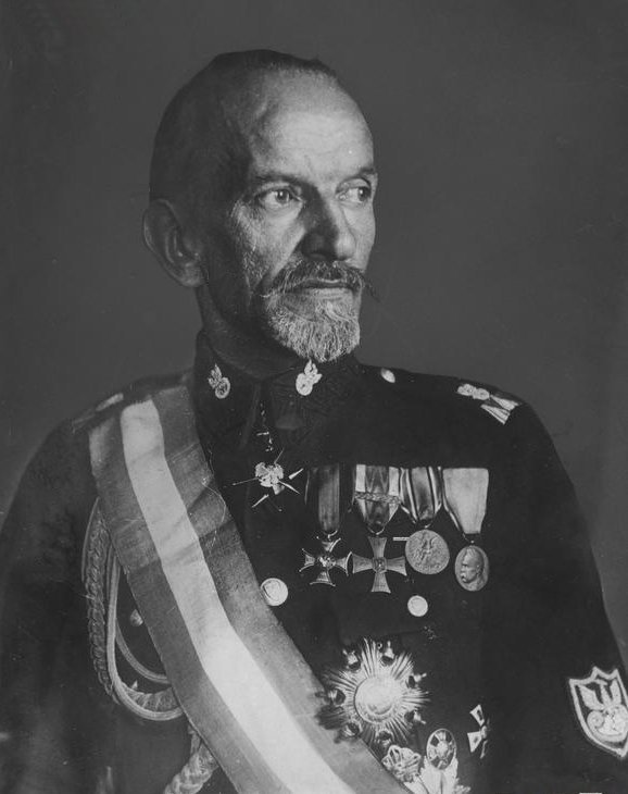 Władysław Jaxa-Rożen (1875-1931), a Polish Brigadier General